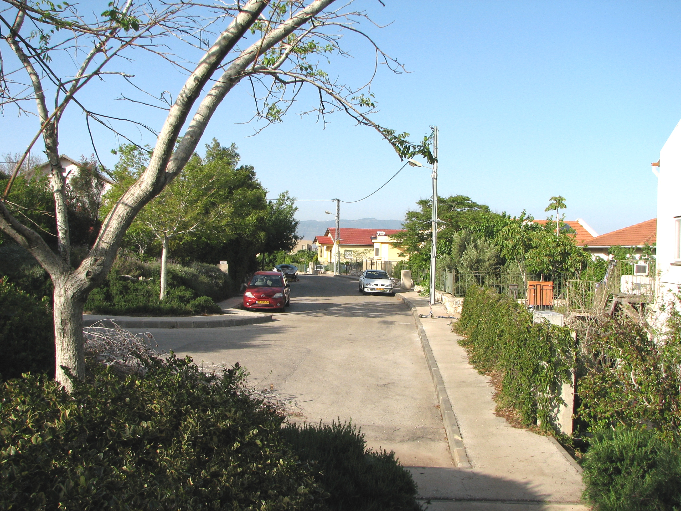 Rakefet - is a communal settlement in northern Israel. Located in the Lower Galilee ת Israel